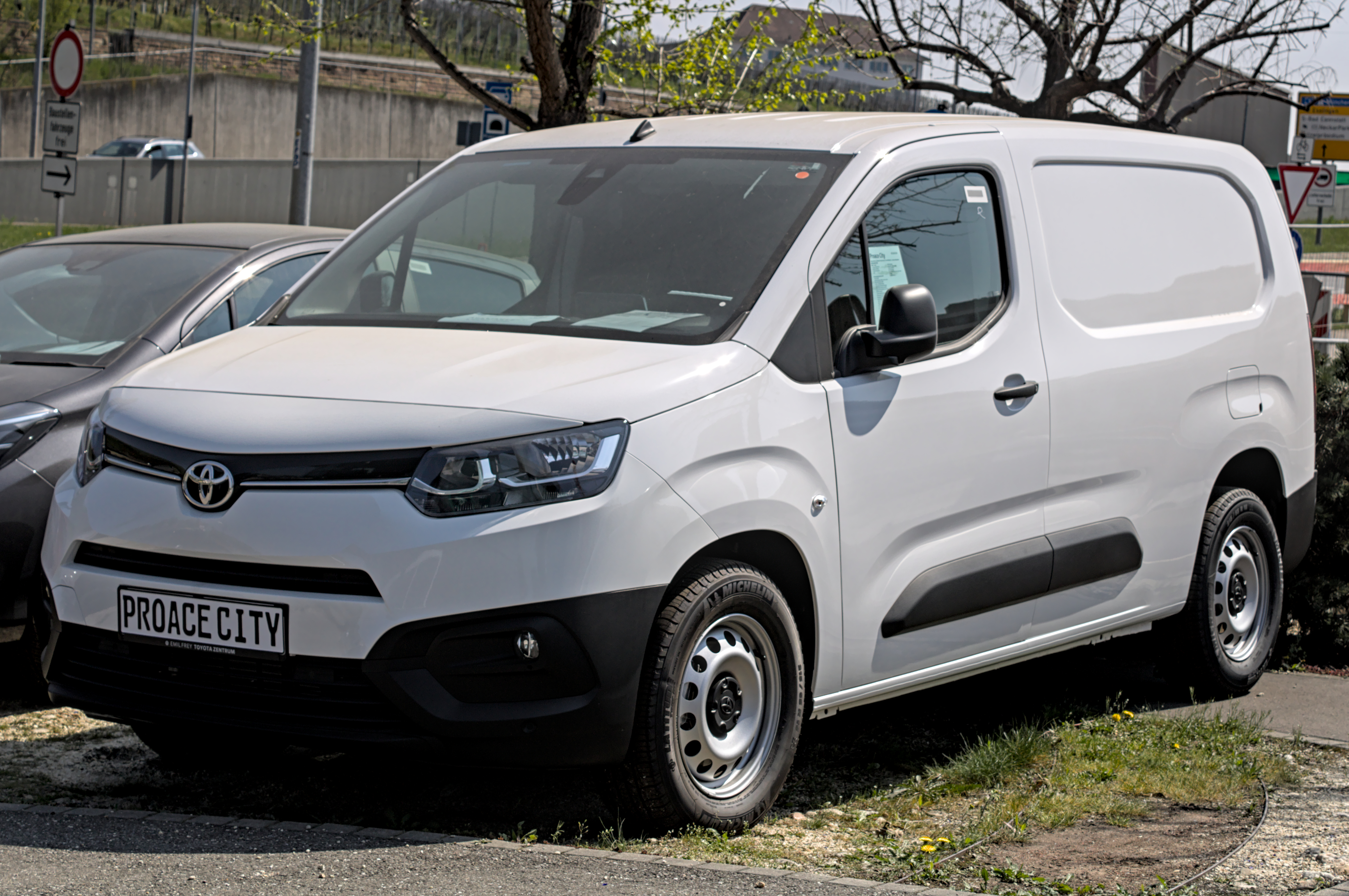 Toyota_ProAce_City in Stuttgart